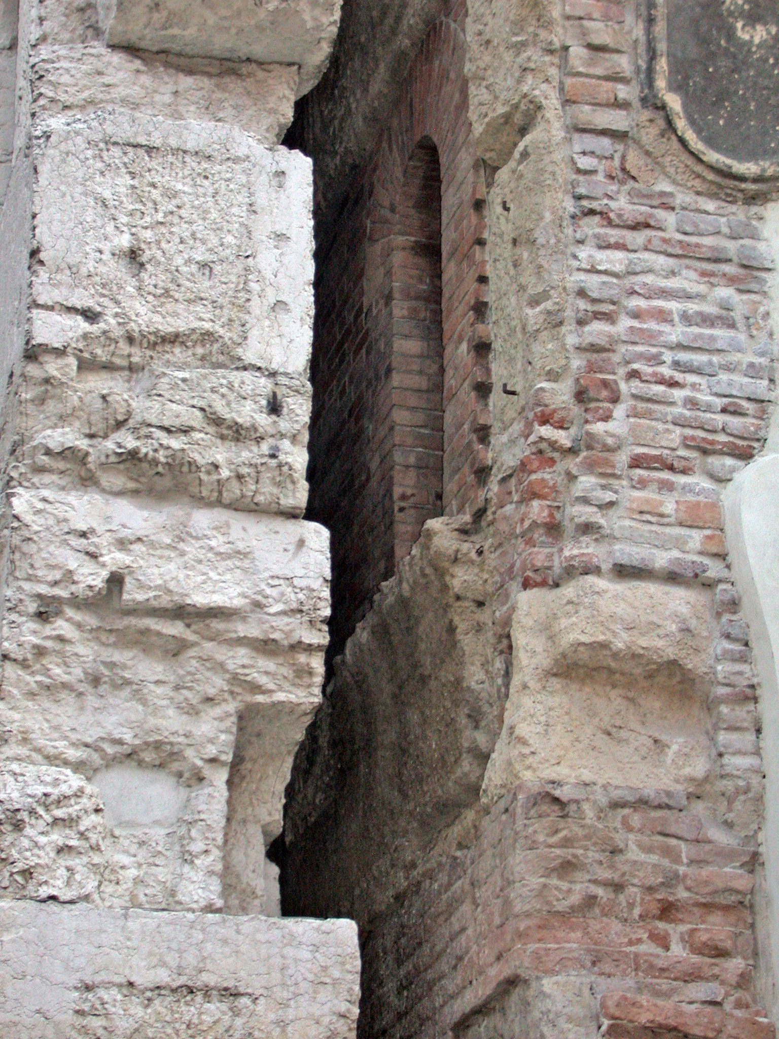 Verona, "Porta dei Leoni" (roman city gate): the original republican front behind the marble imperial front